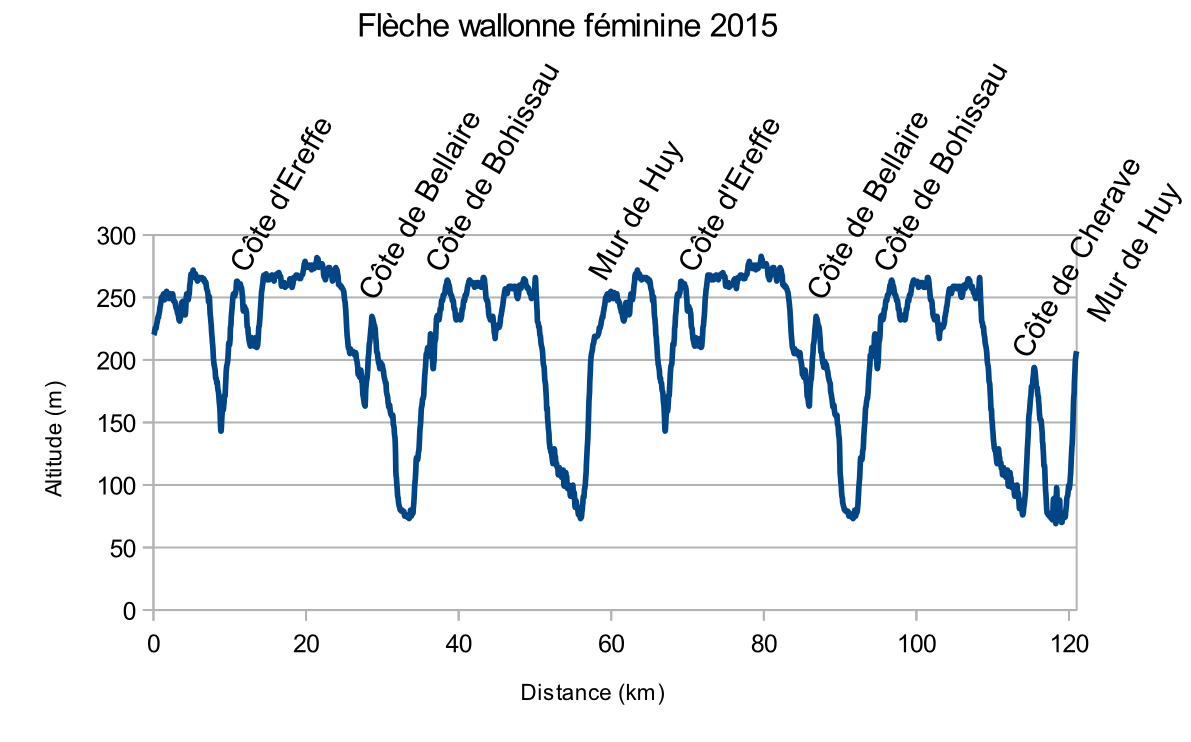 Profile of the Flèche wallonne féminine 2015.